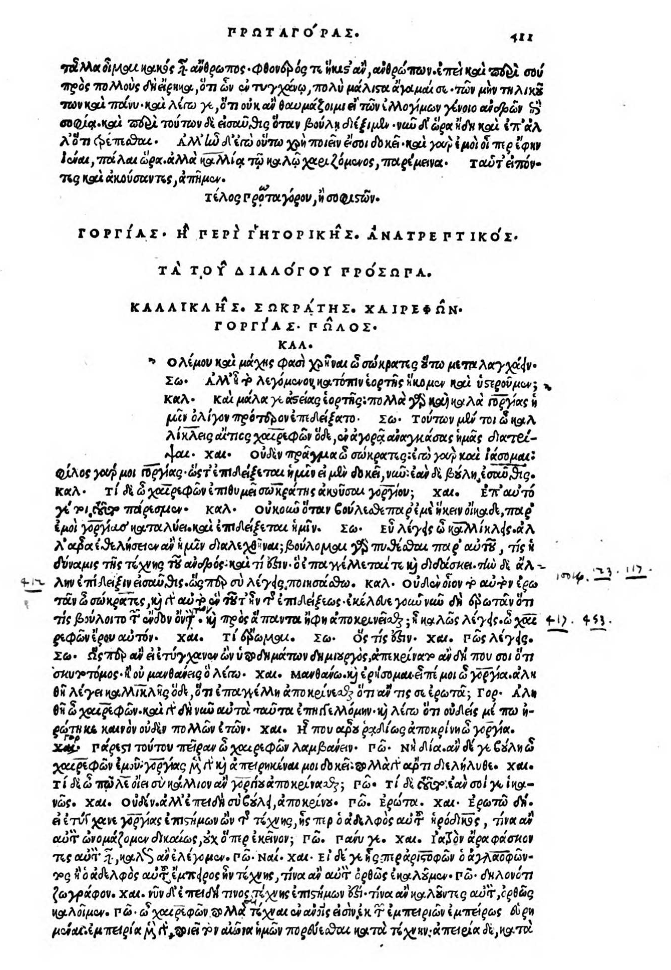 Gorgias beginning. Editio princeps, Venice 1513.